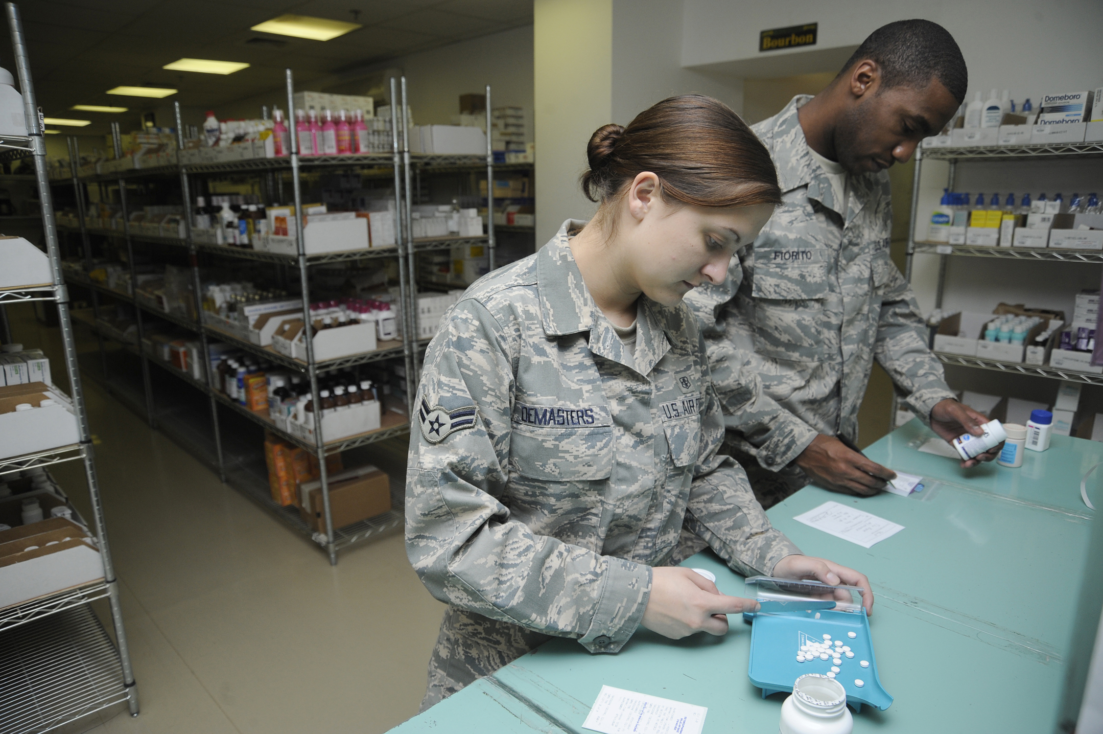 Airman 1st Class Breanna DeMasters and Staff Sgt. Giovanni Fiorito, 332nd Expeditionary Medical Group pharmacy technicians, fill prescription medication for patients, Oct. 7, Joint Base Balad Iraq. The 332nd EMDG pharmacy is staffed with seven personnel and is open 24 hours a day for inpatient needs from 7 a.m. to 7 p.m. for outpatient needs. DeMasters, a native of Colorado Springs, Colo., is deployed from Lackland Air Force Base, Texas; and Fiorito, a native of Sumter, S.C., is deployed from Luke Air force Base, Ariz.